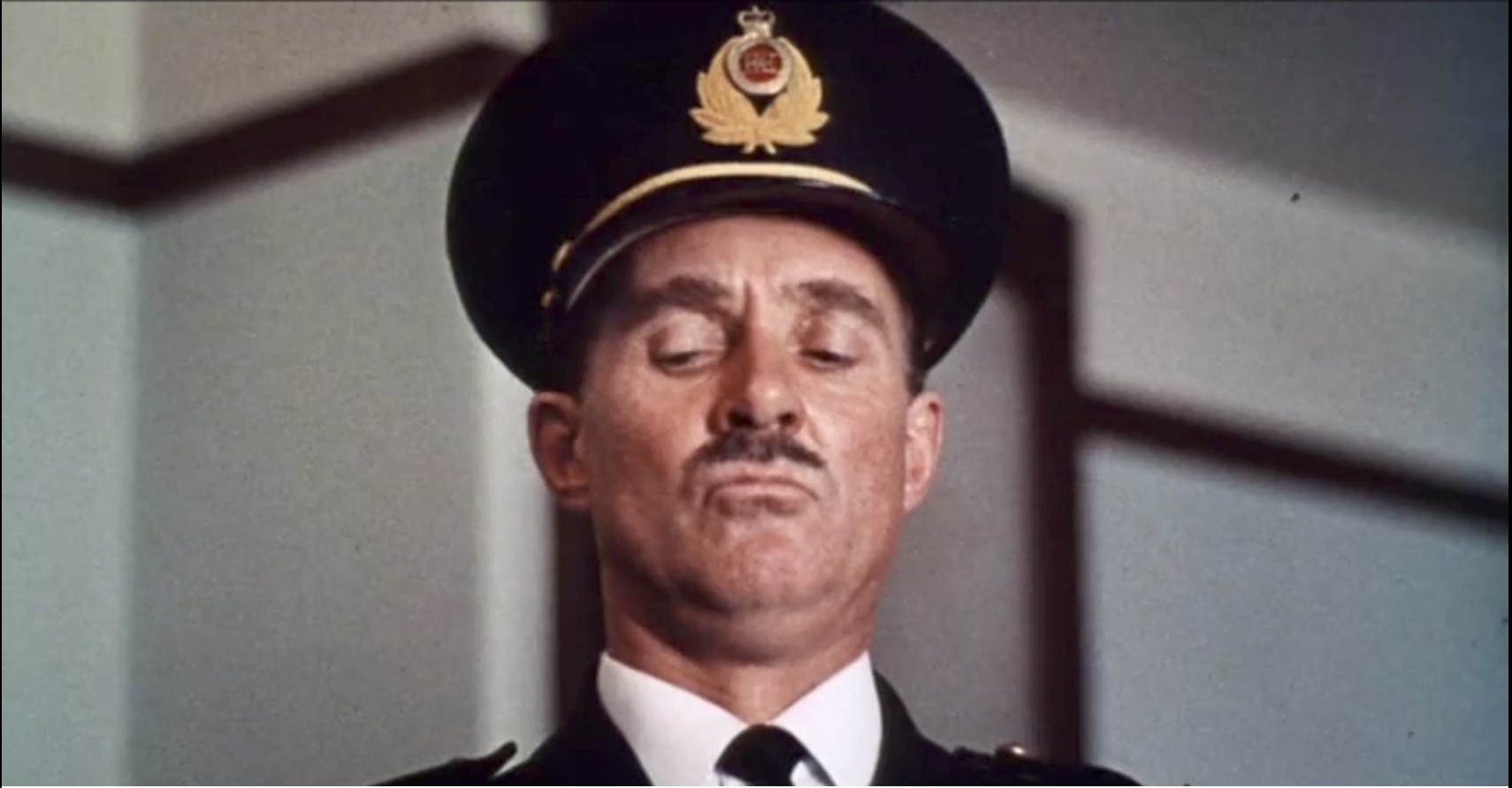 Michael Bates in a public domain film trailer for A Clockwork Orange